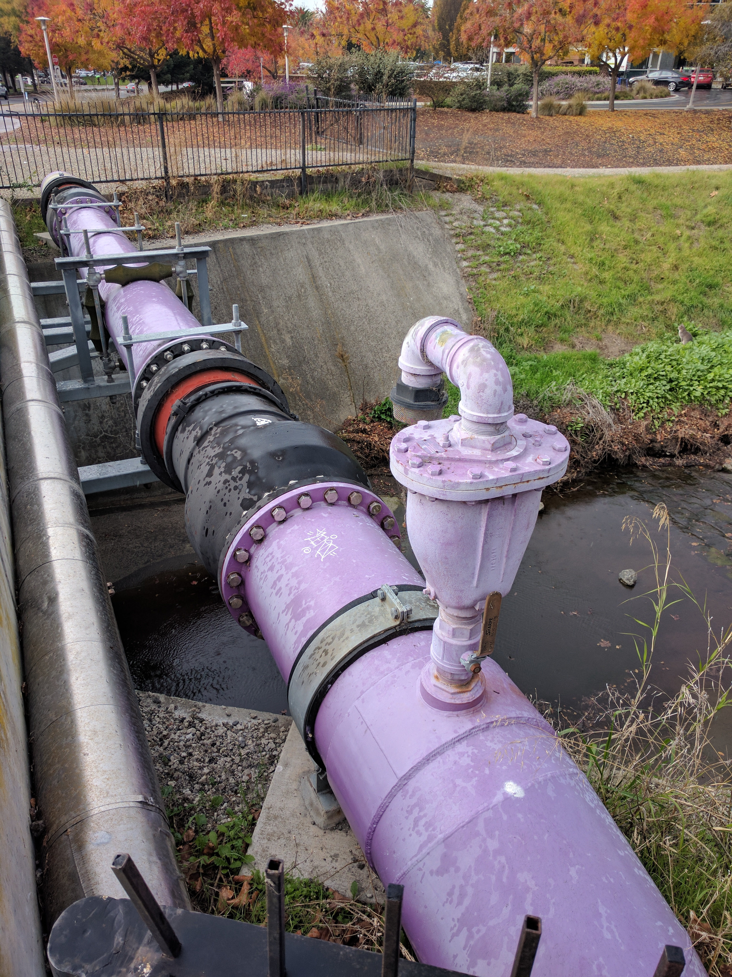 A lavender-colored nonpotable water pipeline in Mountain View, California.